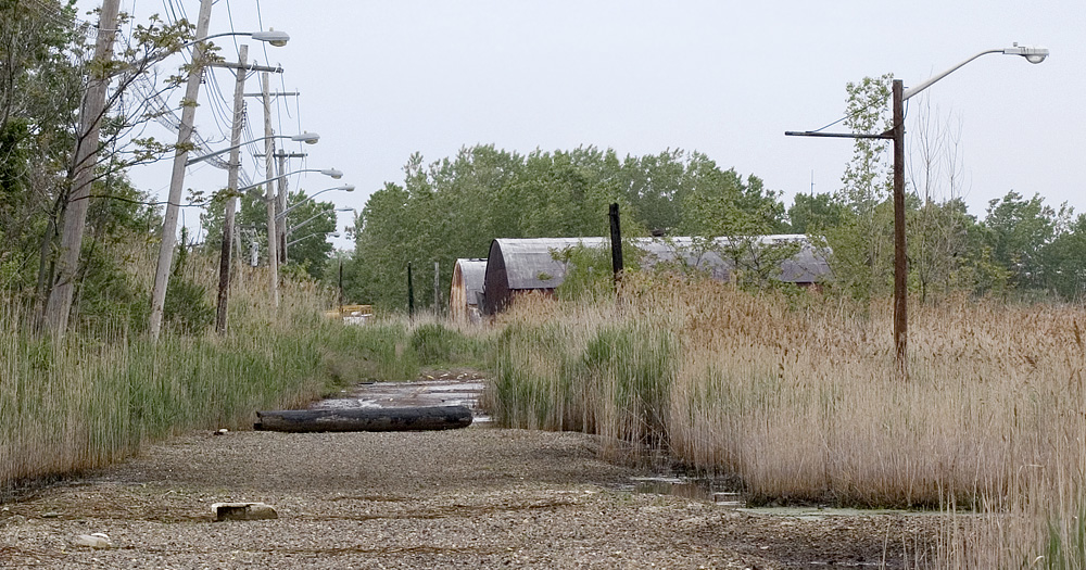 Main road along Flushing Airport's hangars, straight up from Linden Place.